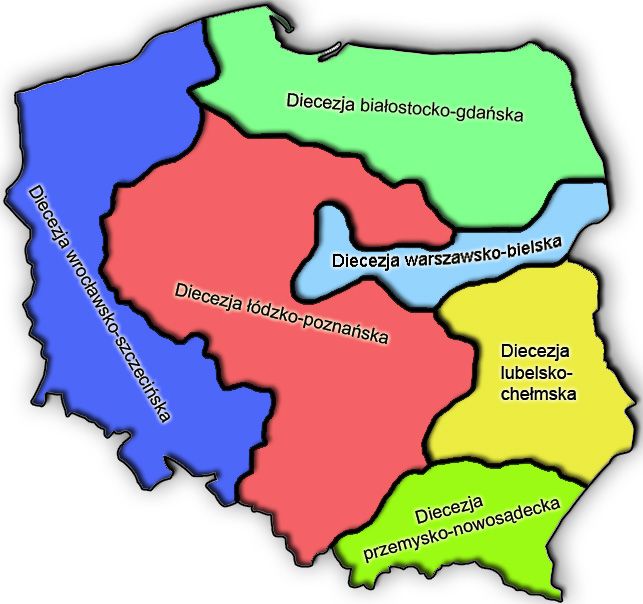 dioceses of Polish Autocephalous Orthodox Church in Poland